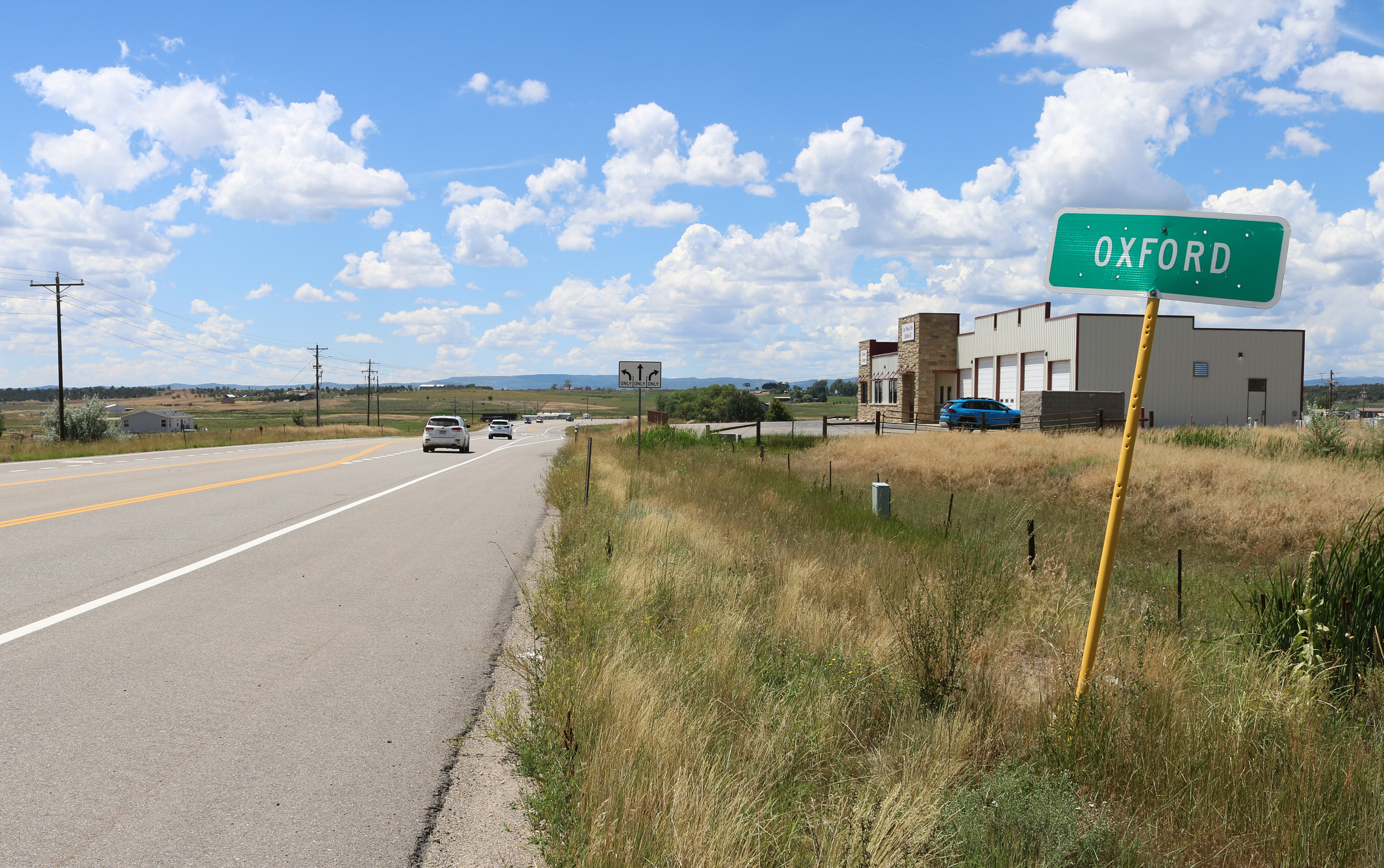 Oxford, Colorado in La Plata County. The building on the right houses the Oxford Grange and the Los Pinos Fire Station #2. The road on the left is Colorado State Highway 172.